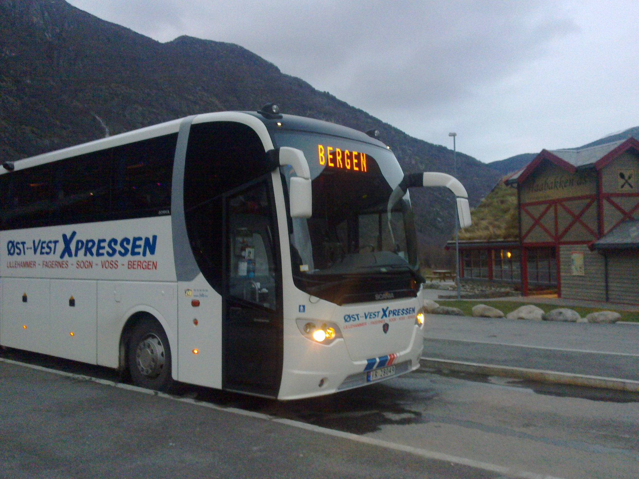 Øst-VestXpressen